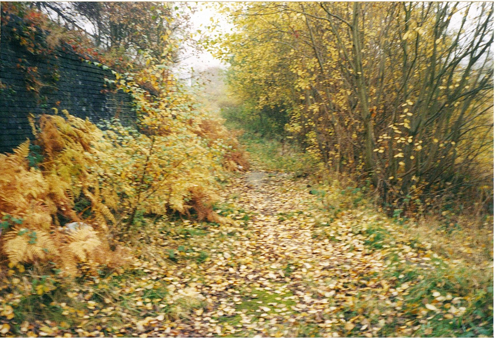 A picture of the former Dudley Freightliner Terminalsignal box's remnants in 2003.